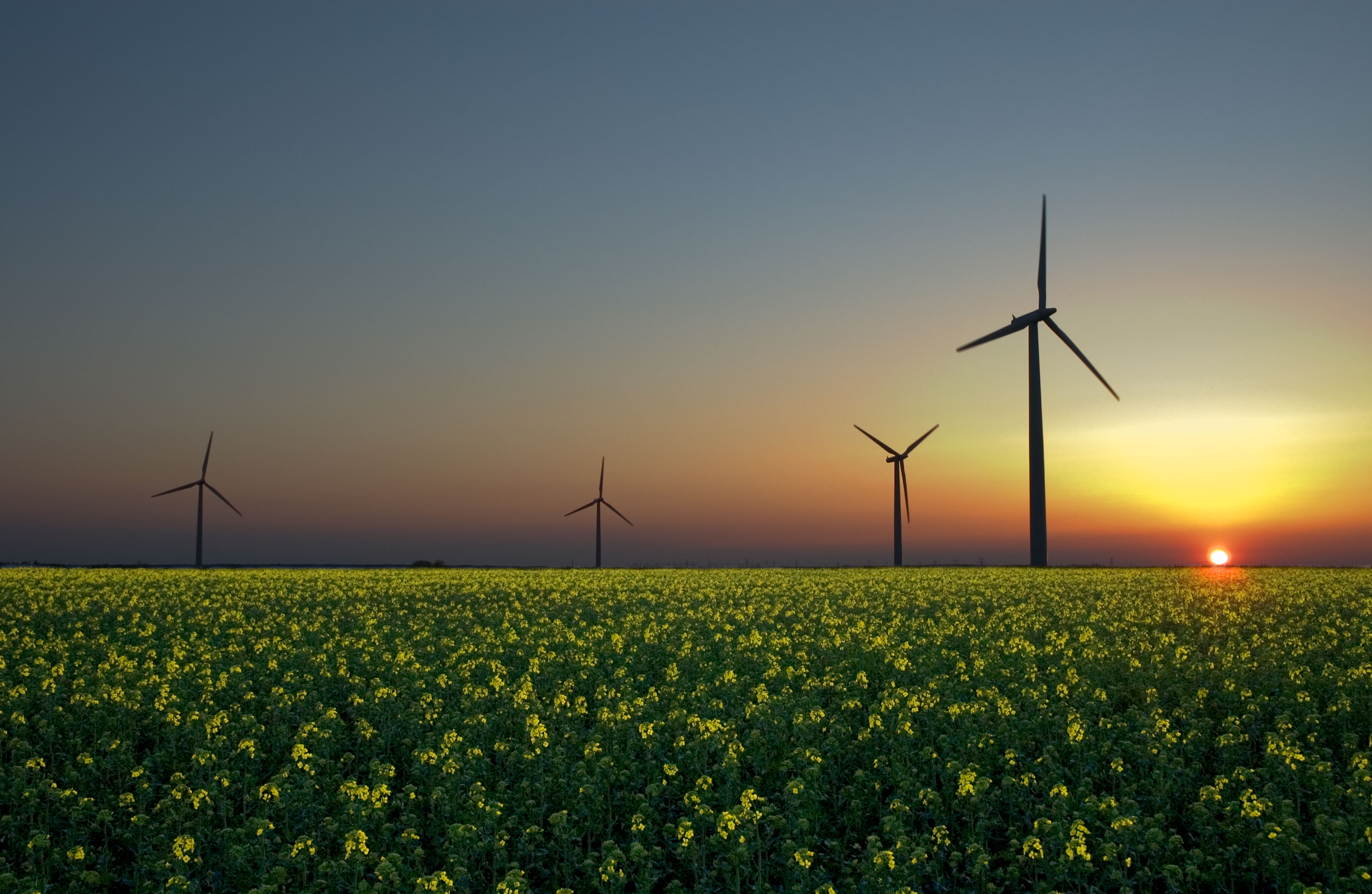 Wind turbines in a rapeseed field in Sandesneben, Germany.